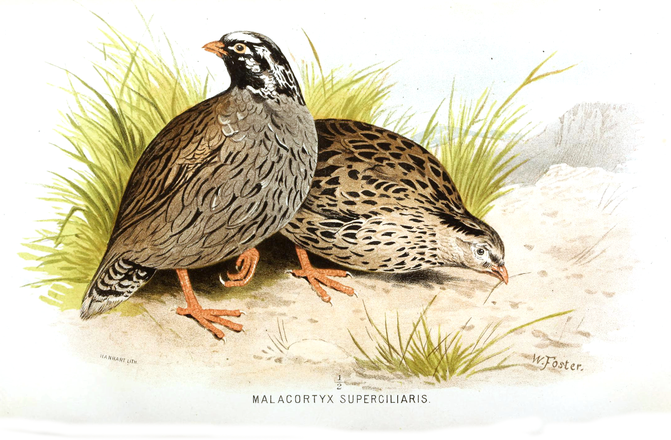 Painting of Mountain Quail Ophrysia superciliosa Hume and Marshall, Game birds of India, Burmah and Ceylon. 1880 Volume 2.